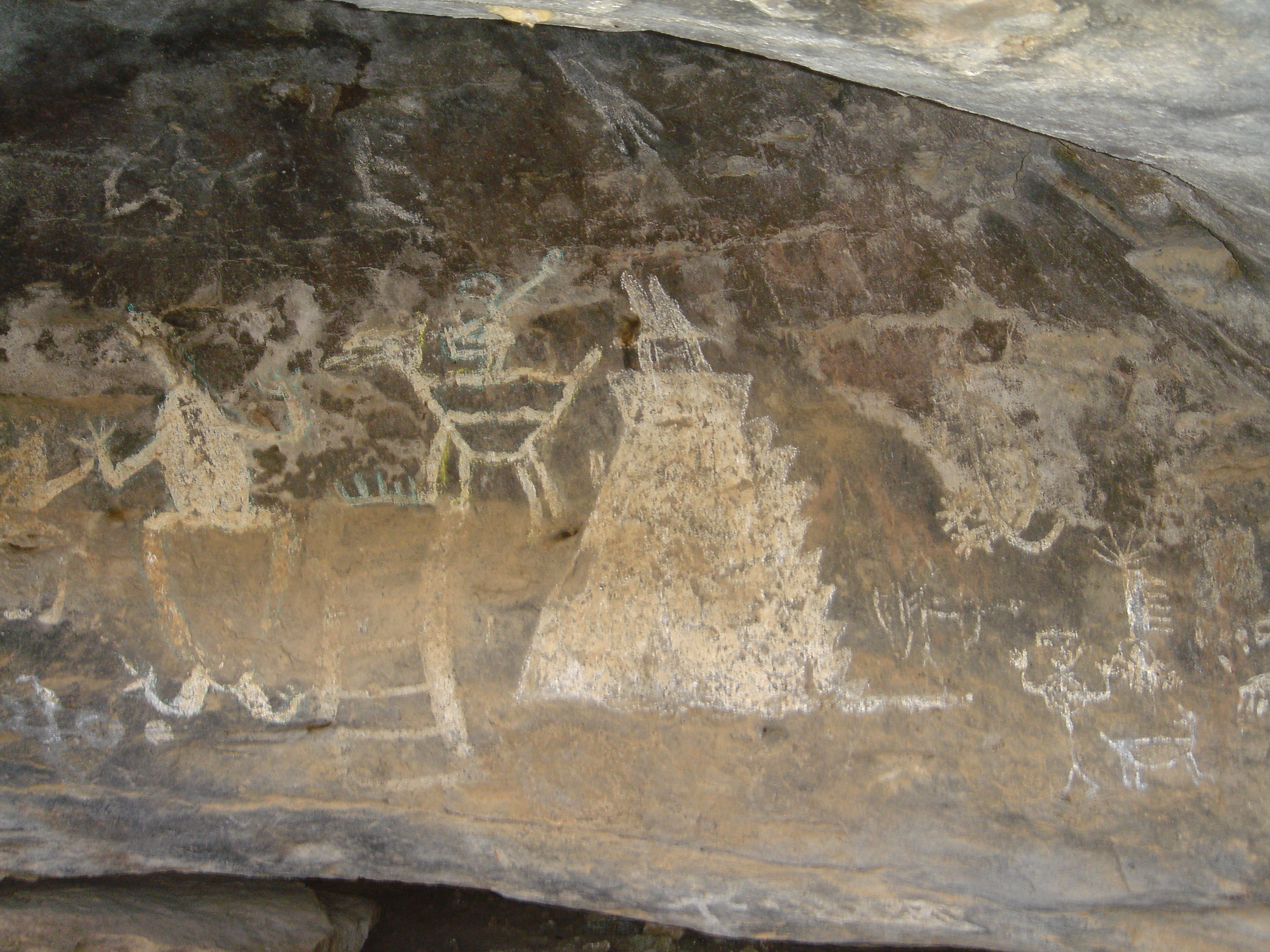 Prehispanic paintings near Huichapan